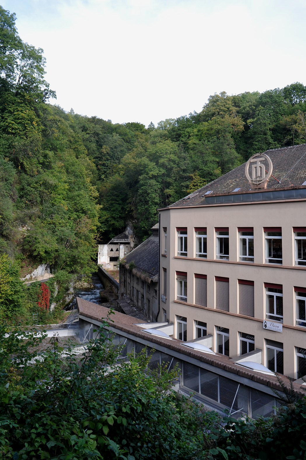 Taubenloch gorge in Biel-Bözingen; Bern, Switzerland. Buildings of the former company Vereinigte Drahtwerke AG at the lower end of the gorge.